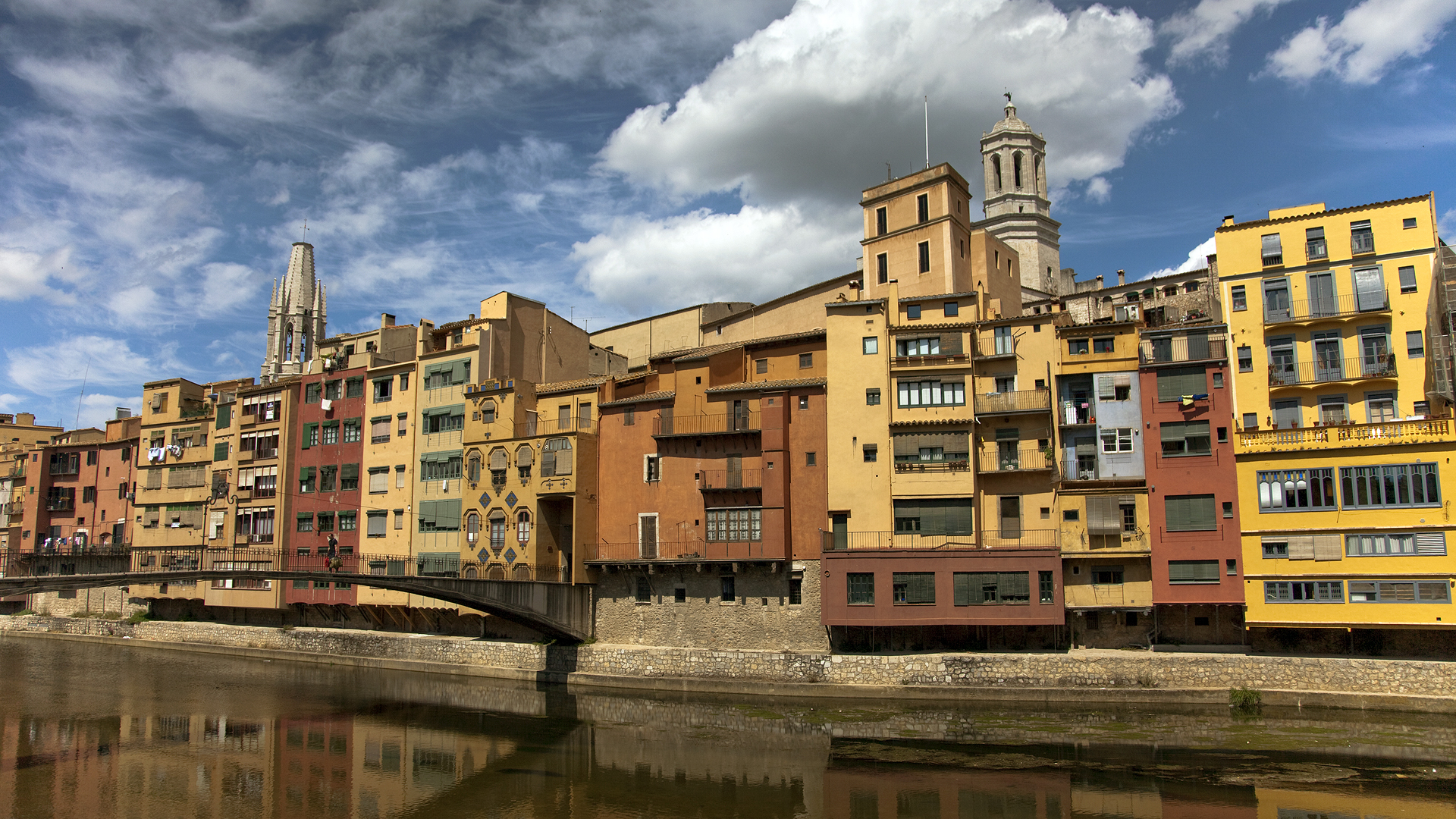 Girona (Spain). Buildings along the river.